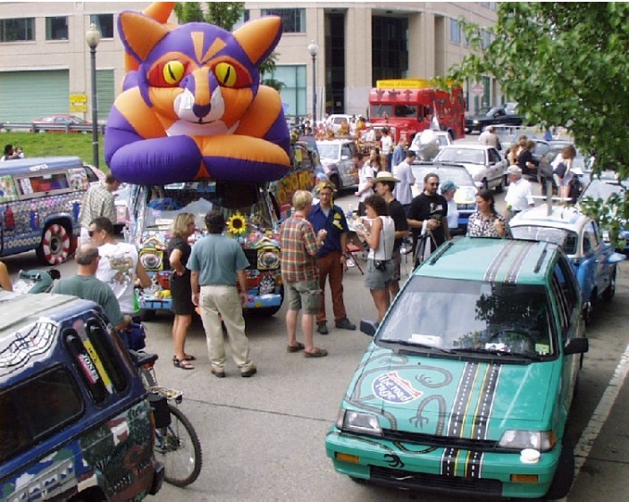 Art cars gathered in downtown Providence, RI at the 2000 Rhode Rally art car event. original location: By User:Improbcat, used with permission as stated on my talk page.